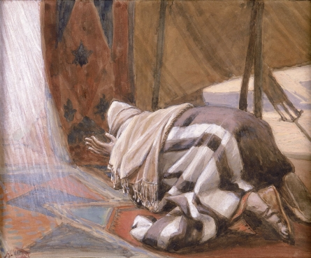 God's Promises to Abram, c. 1896-1902, by James Jacques Joseph Tissot (French, 1836-1902), gouache on board, 4 13/16 x 5 7/8 in. (12.3 x 15 cm), at the Jewish Museum, New York